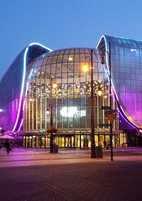 Galeria Katowice by night